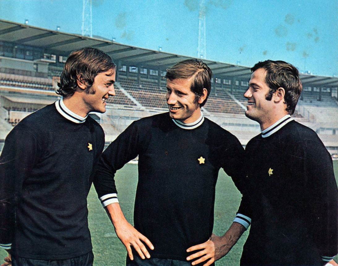 From left to right: Giancarlo Alessandrelli, Pietro Carmignani and Massimo Piloni, the three goalkeepers of Juventus F.C. in the 1971-72 season, posing inside the Communal Stadium in Turin, Italy.